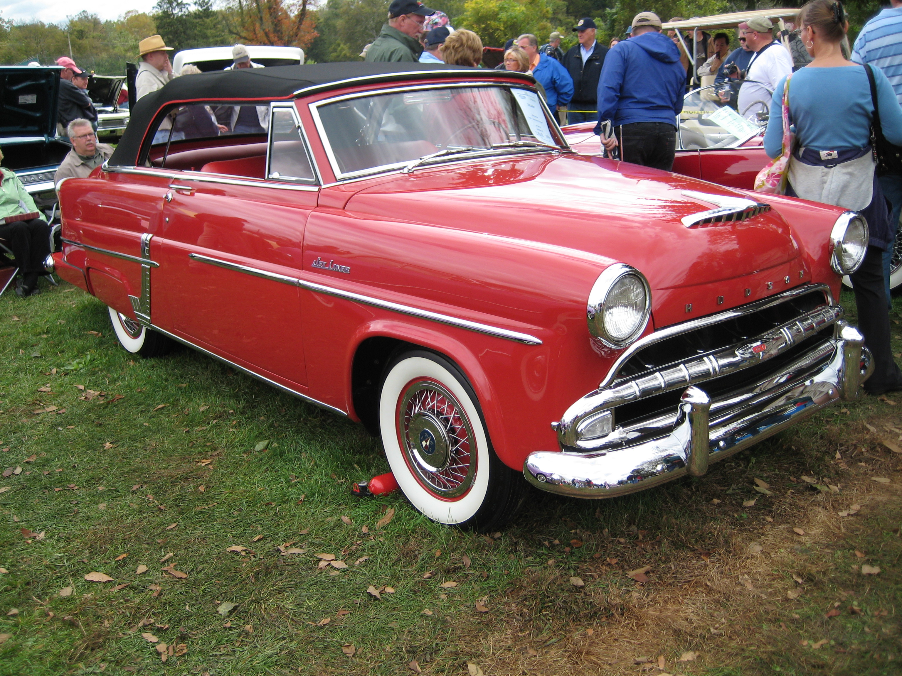 Seen in the car show area at AACA Eastern Region Fall Meet, Hershey Pennsylvania, October 2009.